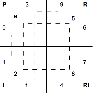 Symmetry diagram of Webern's Concerto Op. 24 tone row, composed of four trichords: P RI R I. After Pierre Boulez (2002), without notation and with trichords marked.